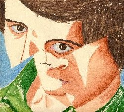 Selfportrait of Dmitri Smirnov